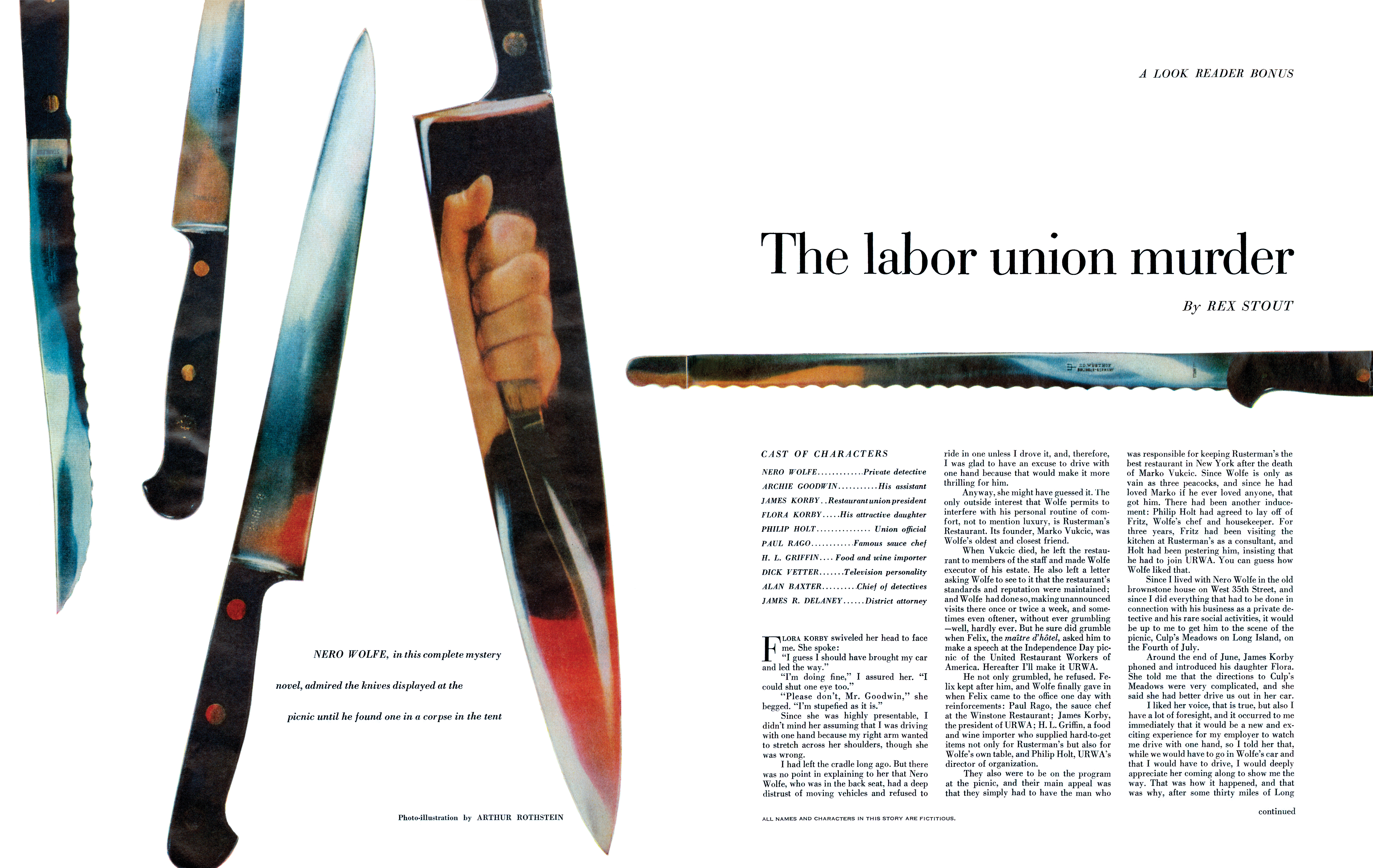 Lead illustration from Look magazine's printing of "The Labor Union Murder" (later titled "Fourth of July Picnic"), a Nero Wolfe short story by Rex Stout